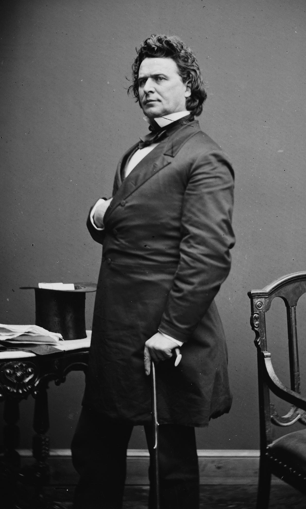 James Mitchell Ashley. Library of Congress description: "Hon. James Mitchell Ashley of Ohio, Editor of Dispatch & Gov. of Territory of Montana, Born"